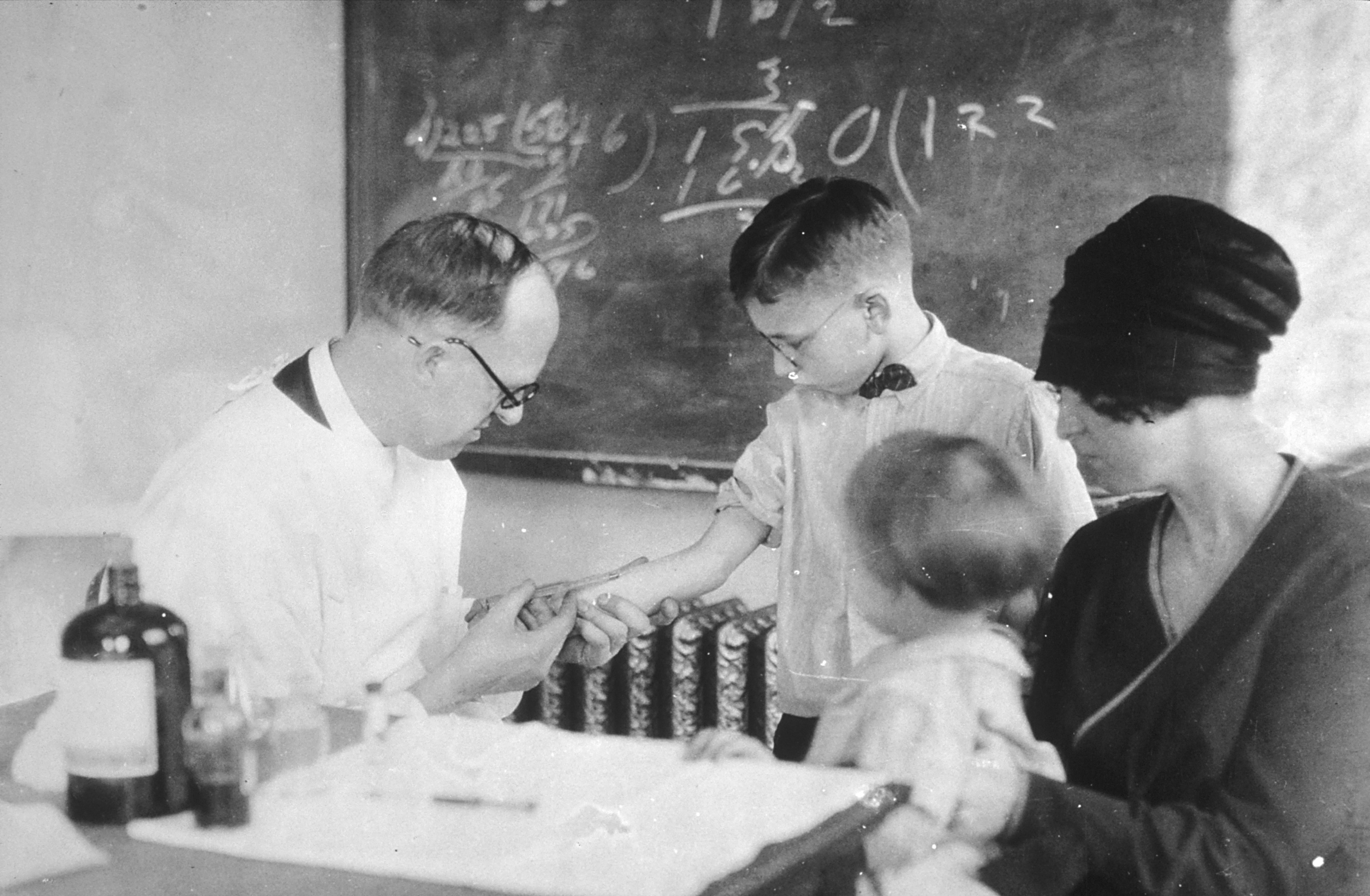 Schick Test: U.S. Hygiene Laboratory Shows photo of young boy receiving the Schick test from a doctor (the test is a measure of immunity to diphtheria). Boy is accompanied by mother and younger sibling (1915).